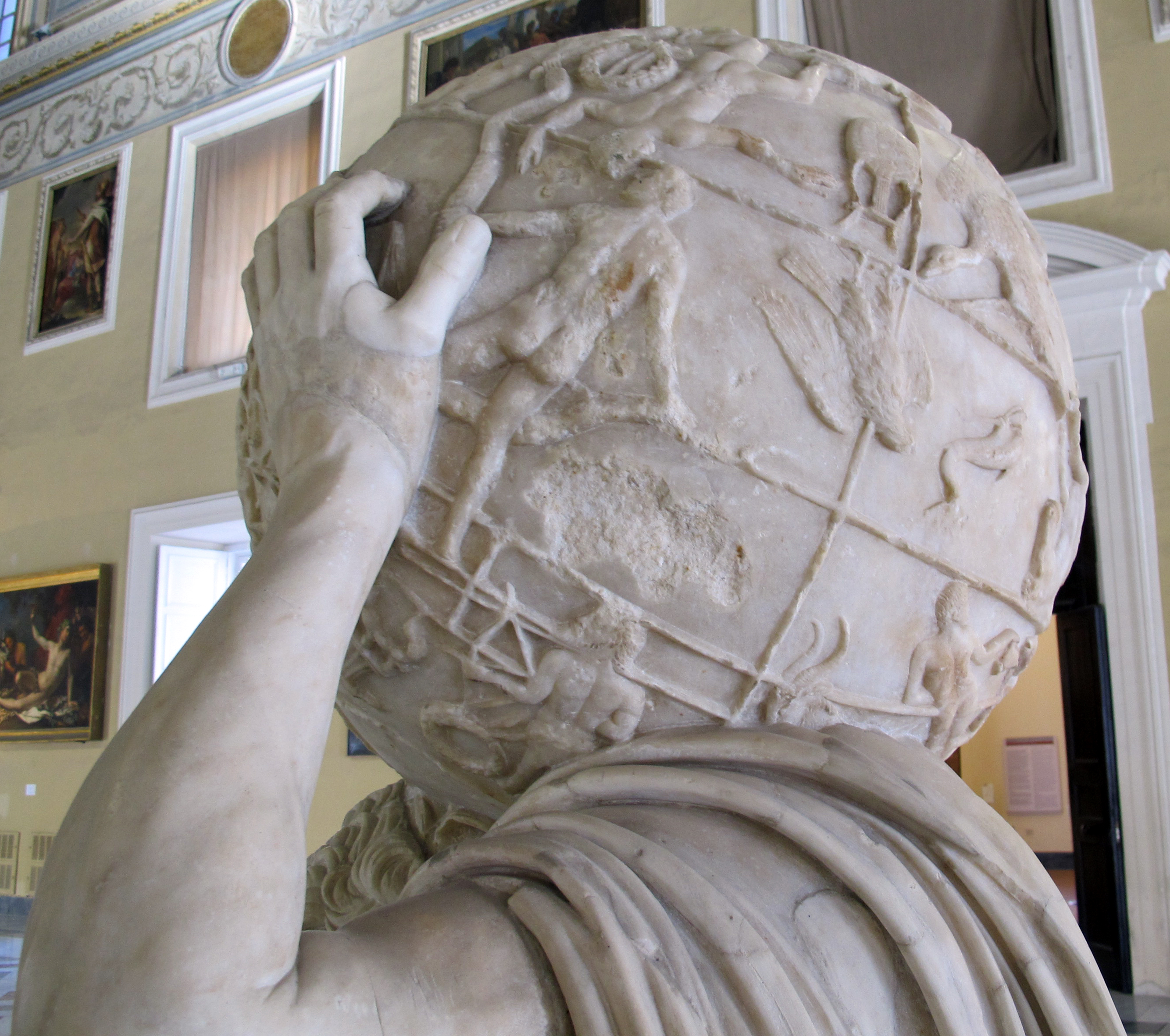 Ancient Roman statues in the Museo Archeologico (Naples)